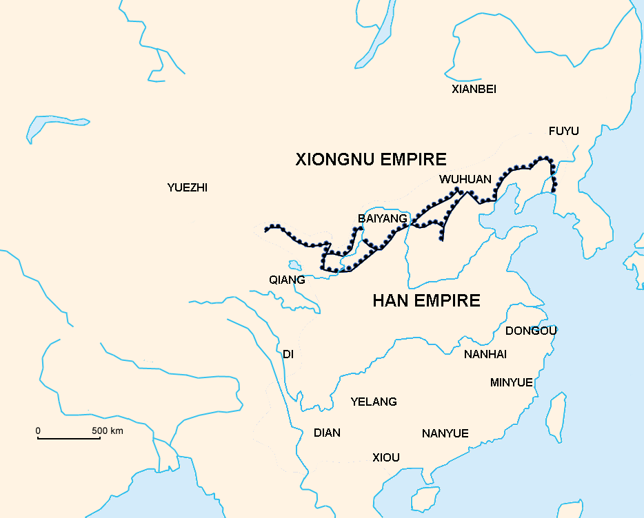 WESTERN HAN EMPIRE